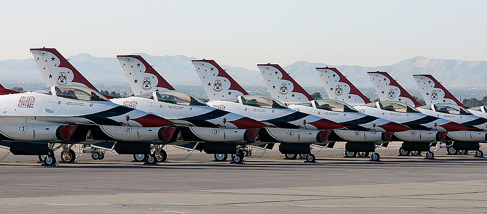 The USAF Thunderbirds' F-16s precisely lined up on the ramp at Nellis AFB just prior to the team's last performance of 2004.